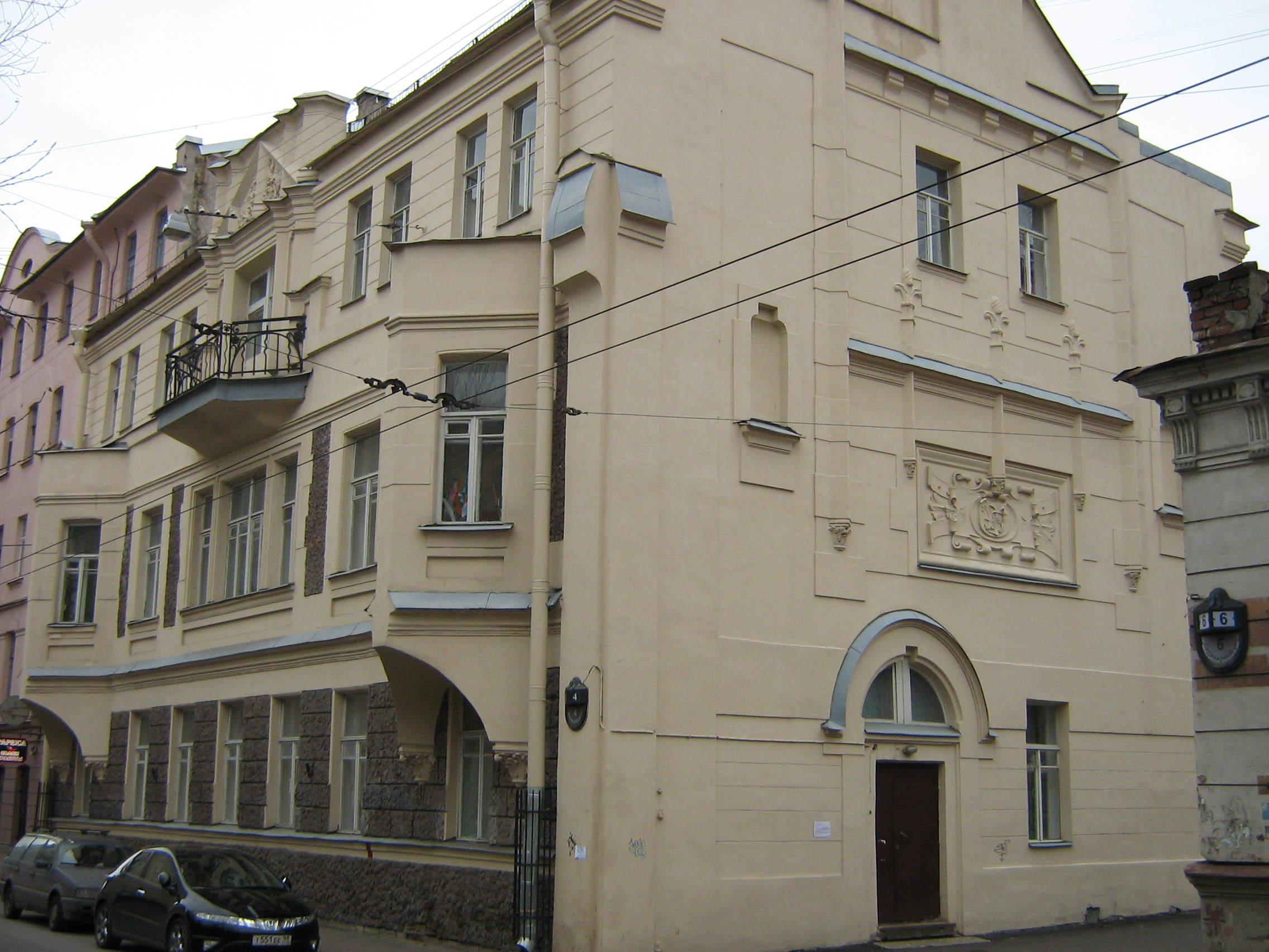 4, Ordinarnaya street (Saint-Petersburg, Russia). Architect A. N. Vekshinskii, 1899-1900.